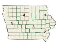 Image adapted from US fed gov't source Category:Congressional districts of Iowa